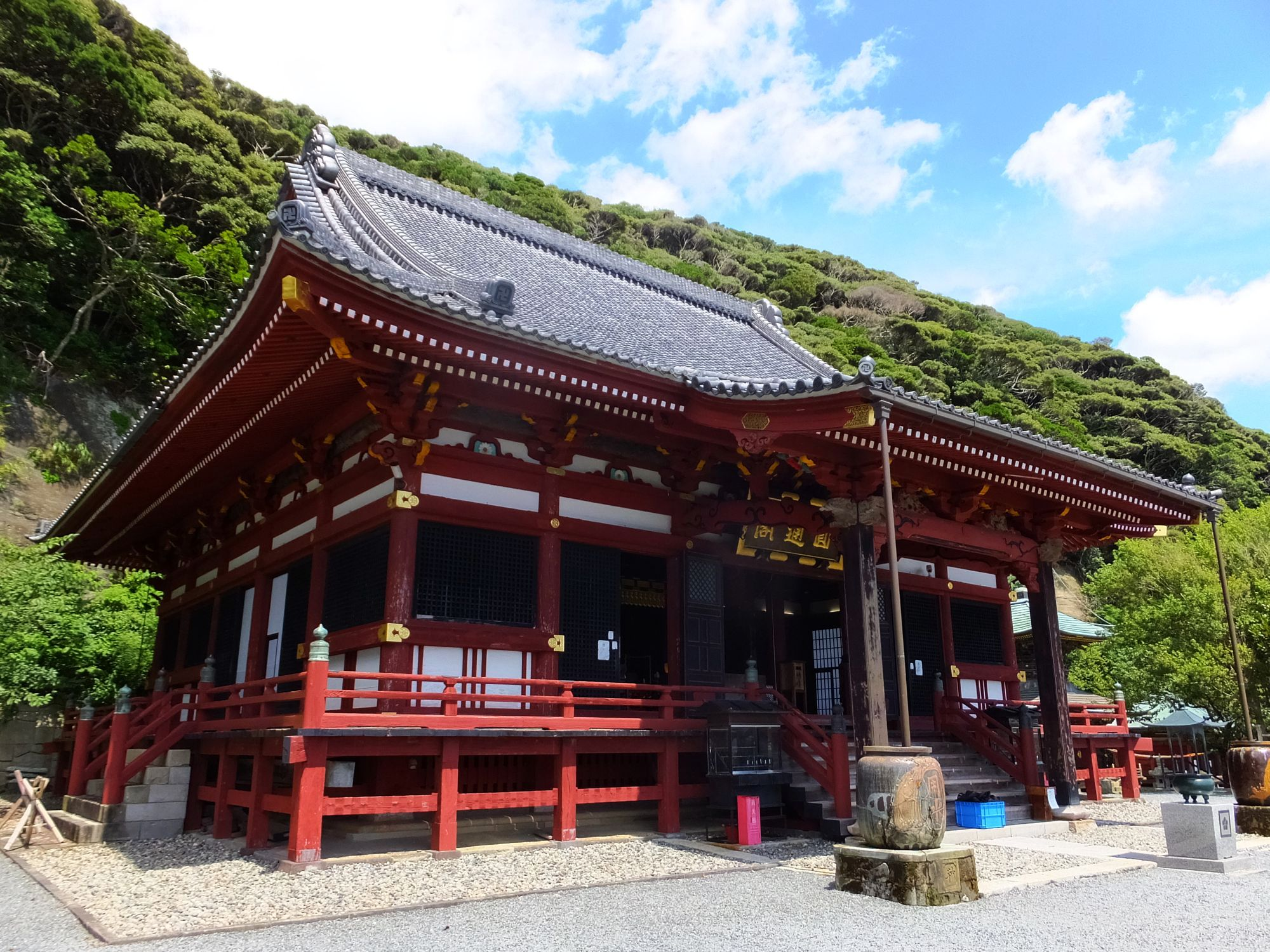 Kannon-dō (Main hall) of Nago-ji temple in Tateyama, Chiba